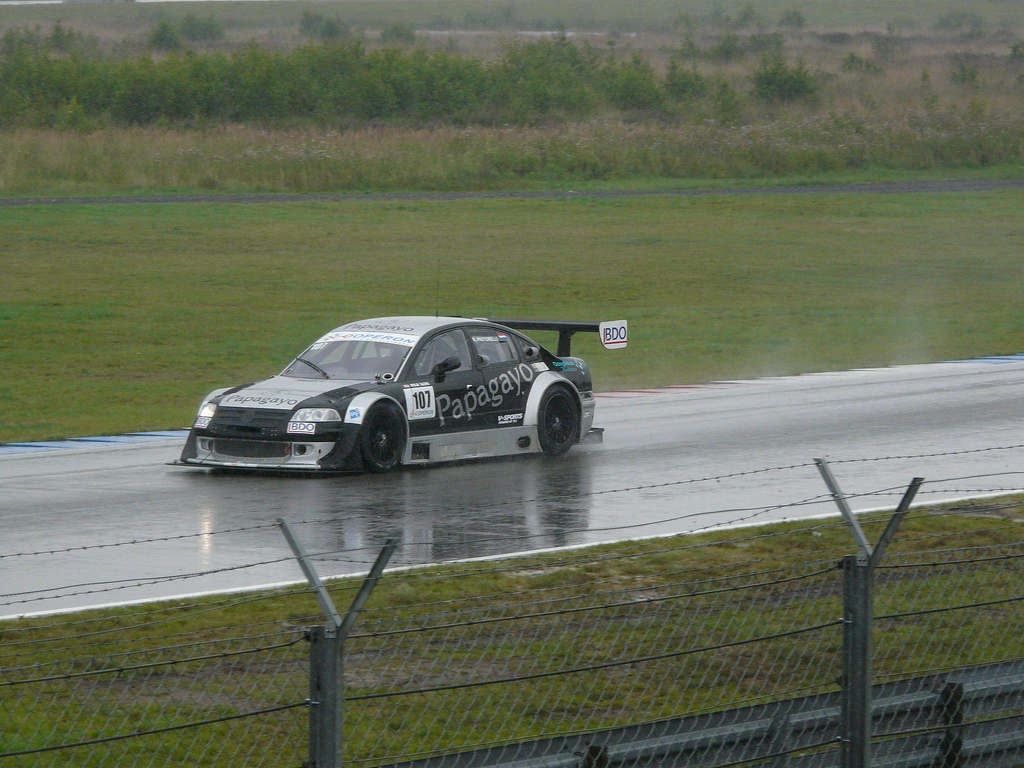 Nicky Pastorelli driving a VW Passat V8STAR in the 2008 Dutch Supercar Challenge.